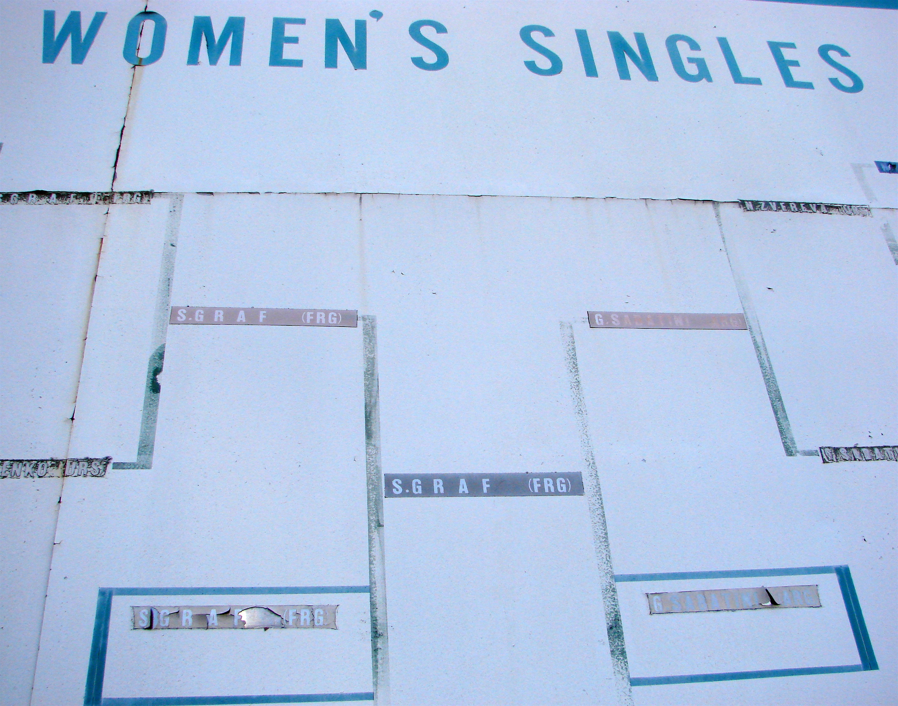 A fading scorecard from the 1988 Summer Olympics, which were held in Seoul. Graf, aged 19, defeated Gabriela Sabatini 6–3, 6–3 to become the first and only player (as of 2015) to win a Golden Slam: all four Grand Slam tournaments and the Olympic title in the same season. This marked the first year that tennis returned to the Olympics, having been cast out after the 1924 Games.